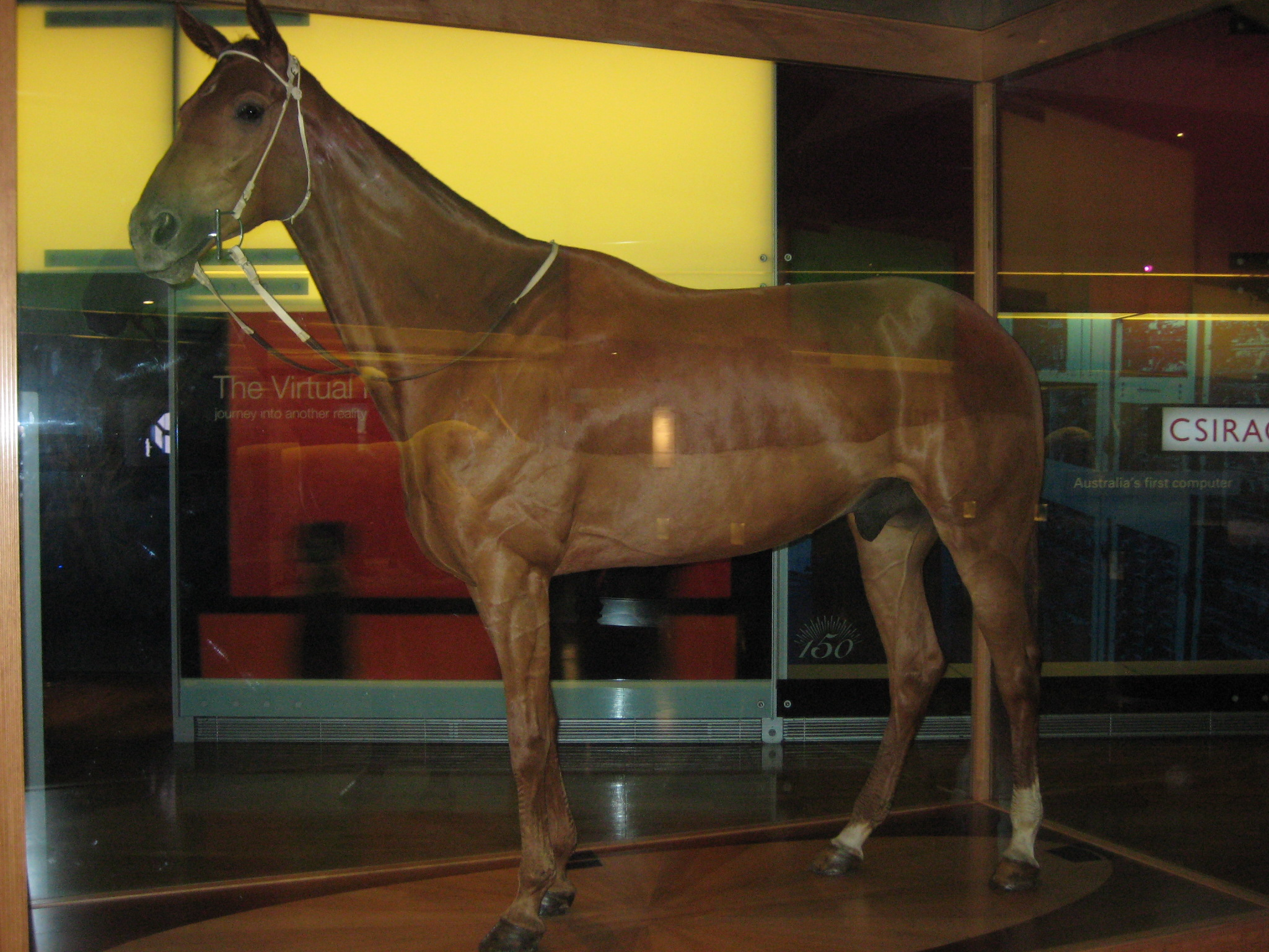 Phar Lap at the Melbourne Museum